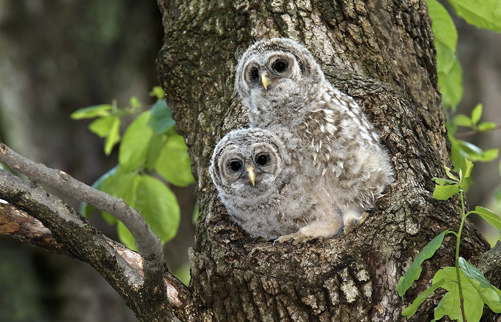 Barred owl chicks at nest just prior to fledging